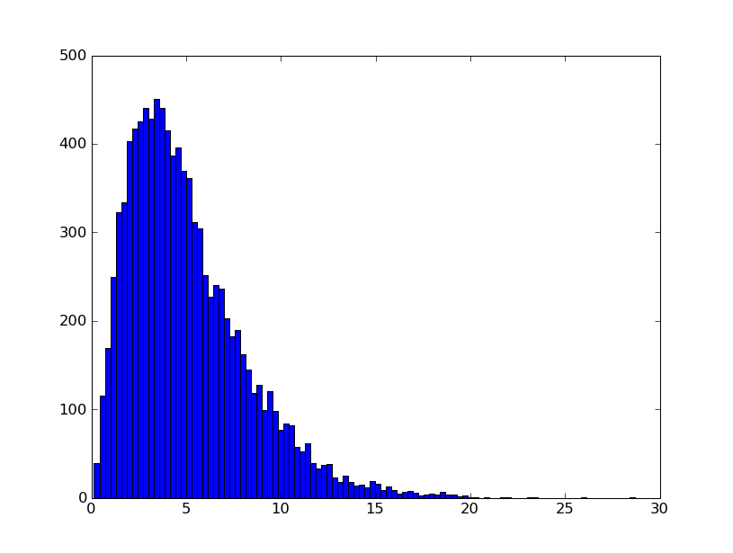 10000 samples with chi-squared distribution, with pylab function "chisquare(5)". made with matplotlib, with a BSD licence